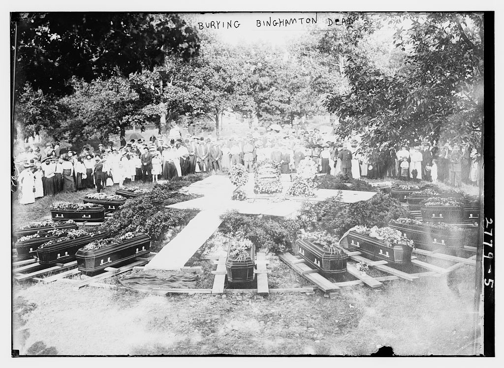 Bain News Service,, publisher. Burying Binghamton dead 1913 Binghamton Factory Fire [no date recorded on caption card] 1 negative : glass ; 5 x 7 in. or smaller. Notes: Title from unverified data provided by the Bain News Service on the negatives or caption cards. Forms part of: George Grantham Bain Collection (Library of Congress). Format: Glass negatives. Repository: Library of Congress, Prints and Photographs Division, Washington, D.C. 20540 USA, General information about the Bain Collection is available at Persistent URL: Call Number: LC-B2- 2779-5